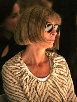 Anna Wintour at New York's Fall Fashion Week, 2005